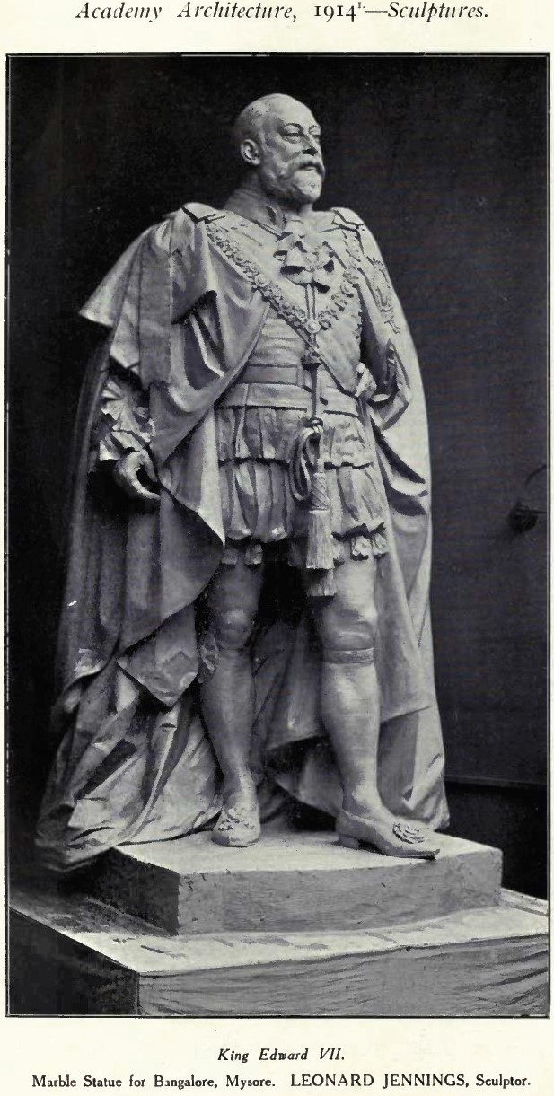 King Edward VII. Marble Statue for Bangalore, Mysore. Leonard Jennings, Sculptor (Vol 45, May 1914, p.36, Academy of Architecture, 1914 - Sculptures) - Copy